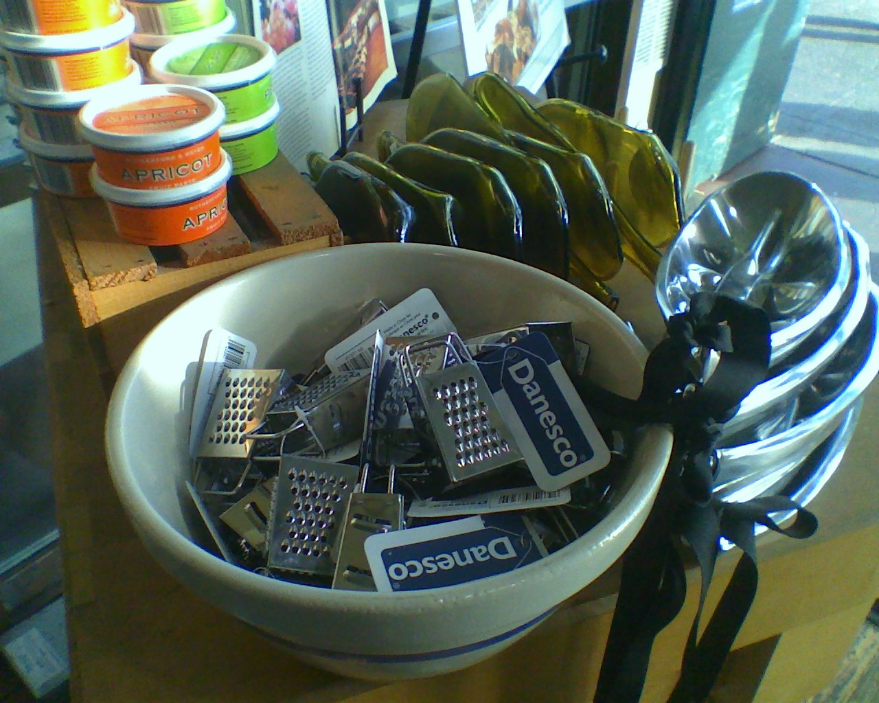 It seems they have many items, grate and small. :)